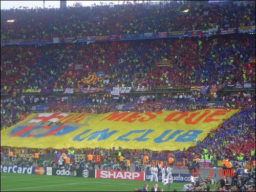 photo of the Barcelona fans and massive banner at CL final 2006